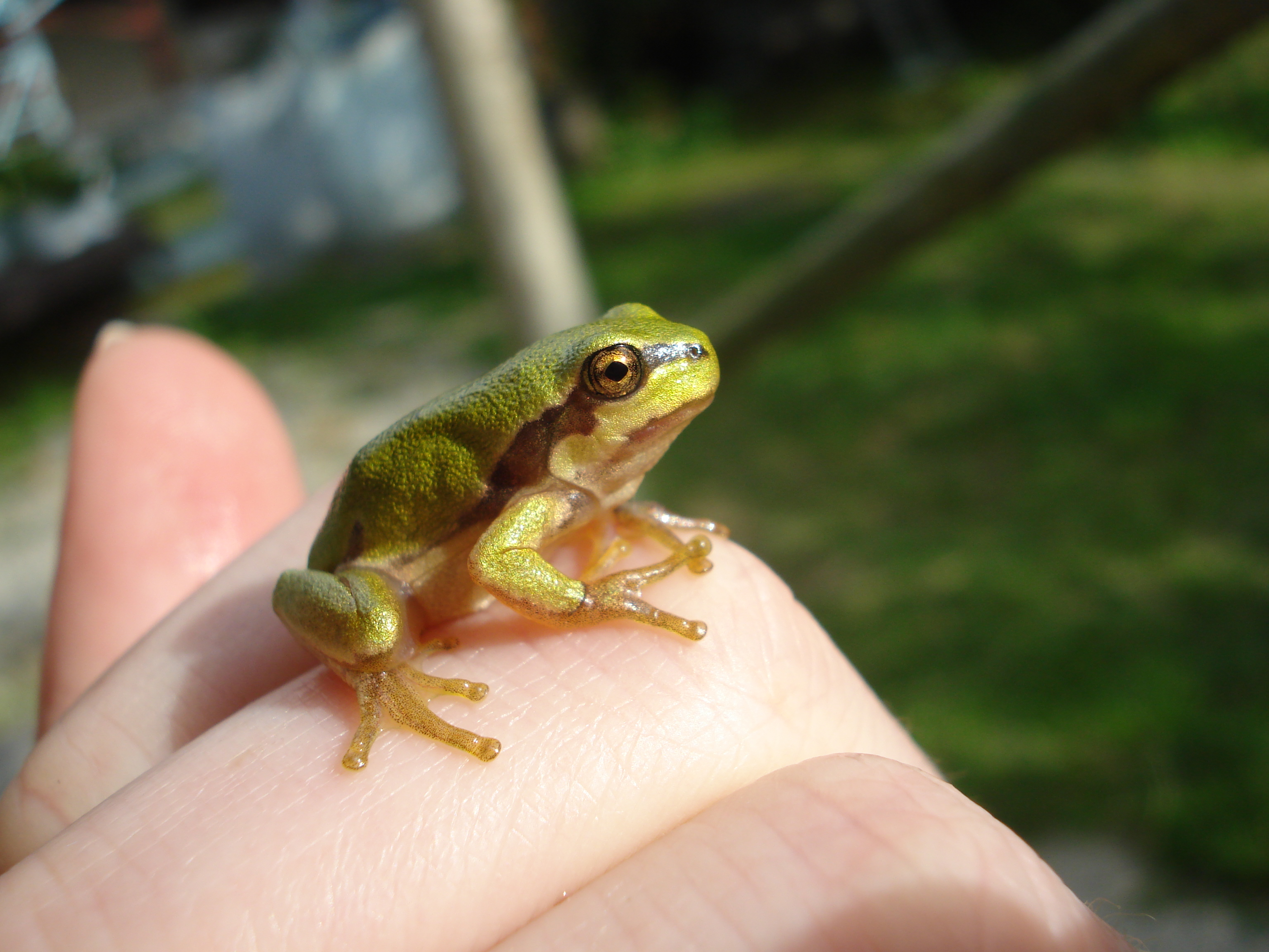 Photo captured in 2012 by the author on the left hand.